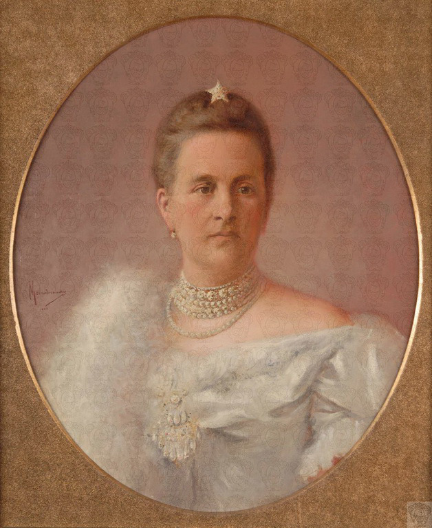 Olga Constantinovna of Russia